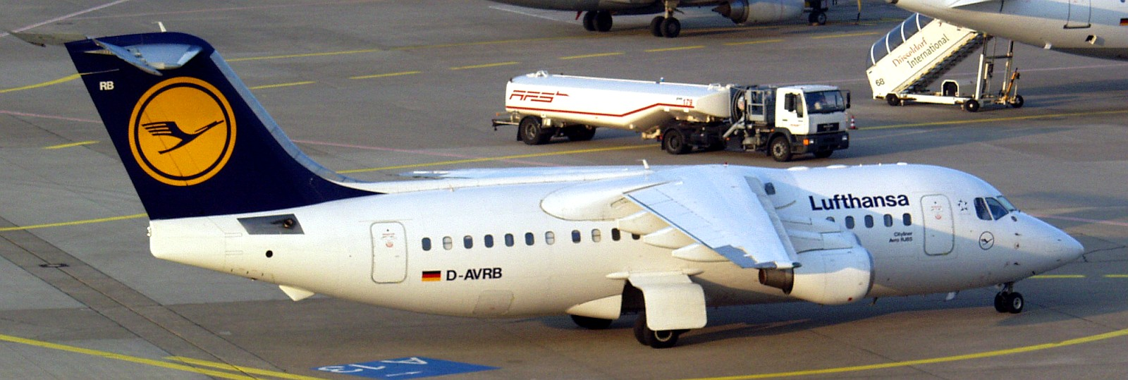 Avro RJ85 (D-AVRB) of Lufthansa at Düsseldorf